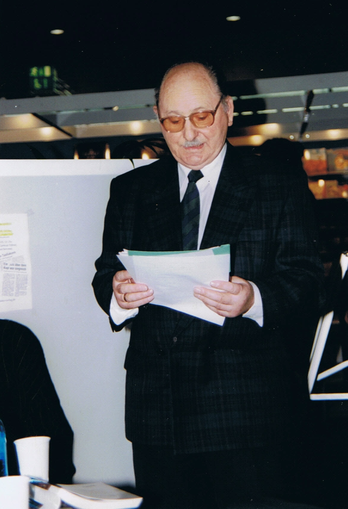 Bookfair Frankfurt/M 2001- Adolf Kutschker